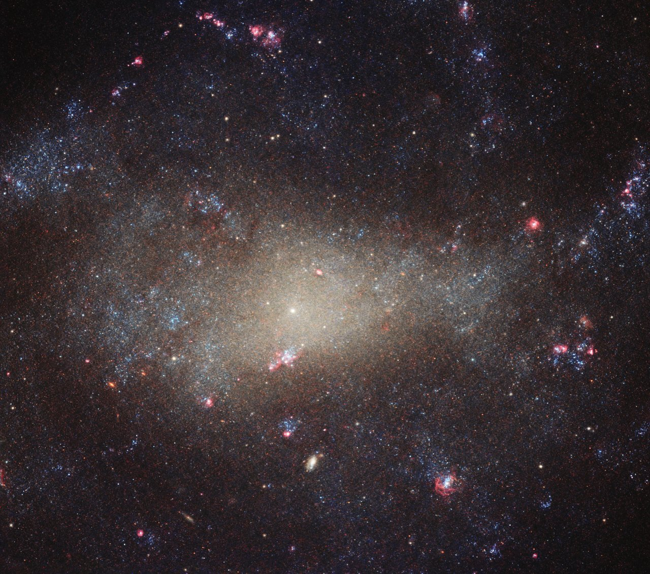 Tucked away in the small northern constellation of Canes Venatici (The Hunting Dogs) is the galaxy NGC 4242, shown here as seen by the NASA/ESA Hubble Space Telescope. The galaxy lies some 30 million light-years from us. At this distance from Earth, actually not all that far on a cosmic scale, NGC 4242 is visible to anyone armed with even a basic telescope (as British astronomer William Herschel found when he discovered the galaxy in 1788). This image shows the galaxy’s bright centre and the surrounding dimmer and more diffuse “fuzz”. Despite appearing to be relatively bright in this image, studies have found that NGC 4242 is actually relatively dim (it has a moderate-to-low surface brightness and low luminosity) and also supports a low rate of star formation. The galaxy also seems to have a weak bar of stars cutting through its asymmetric centre, and a very faint and poorly-defined spiral structure throughout its disc. But if NGC 4242 is not all that remarkable, as with much of the Universe, it is still a beautiful and ethereal sight.